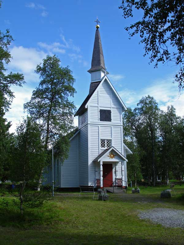 Ankarede chapel in Frostviken parish.